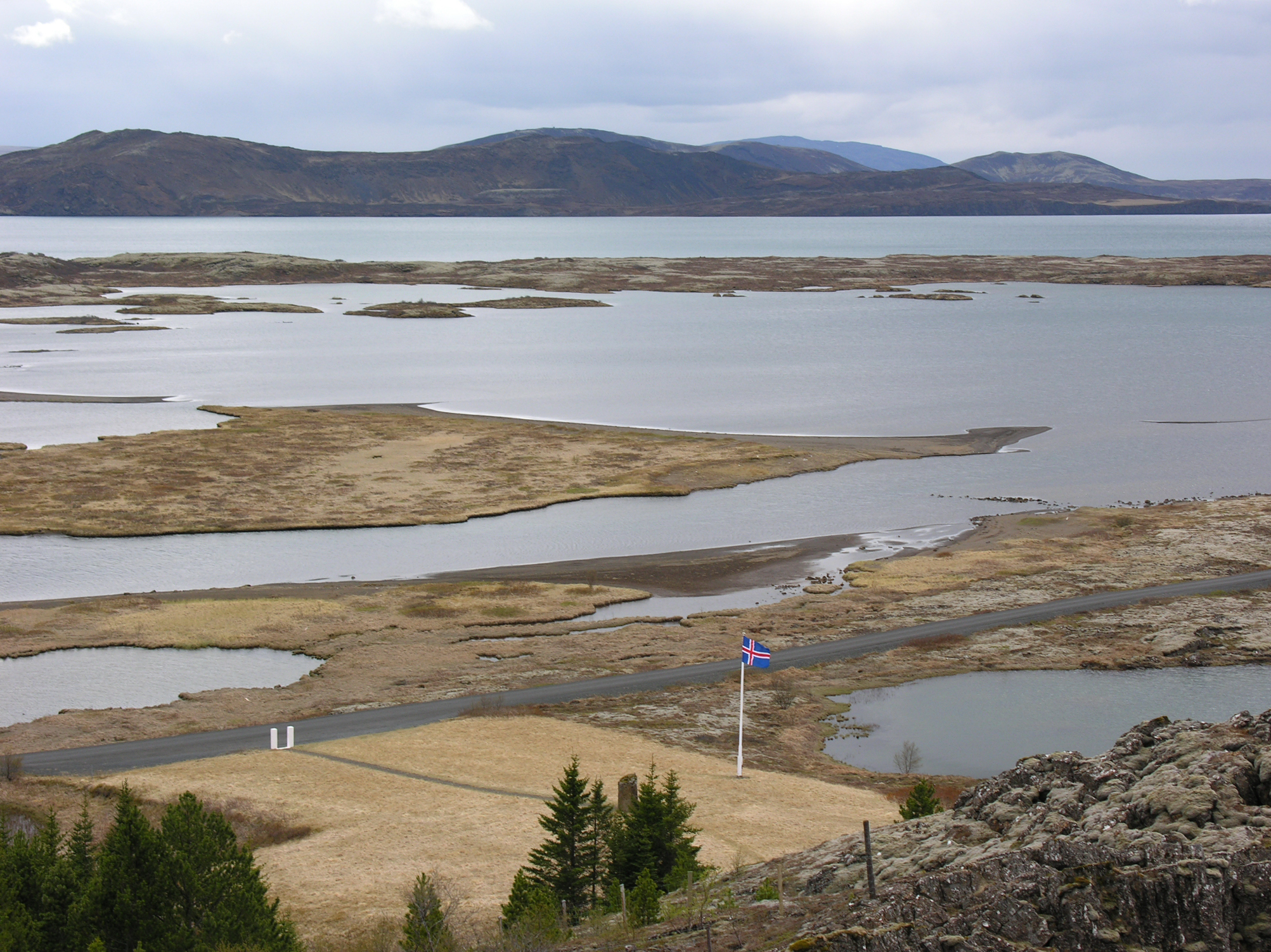 Iceland, Þingvellir National Park